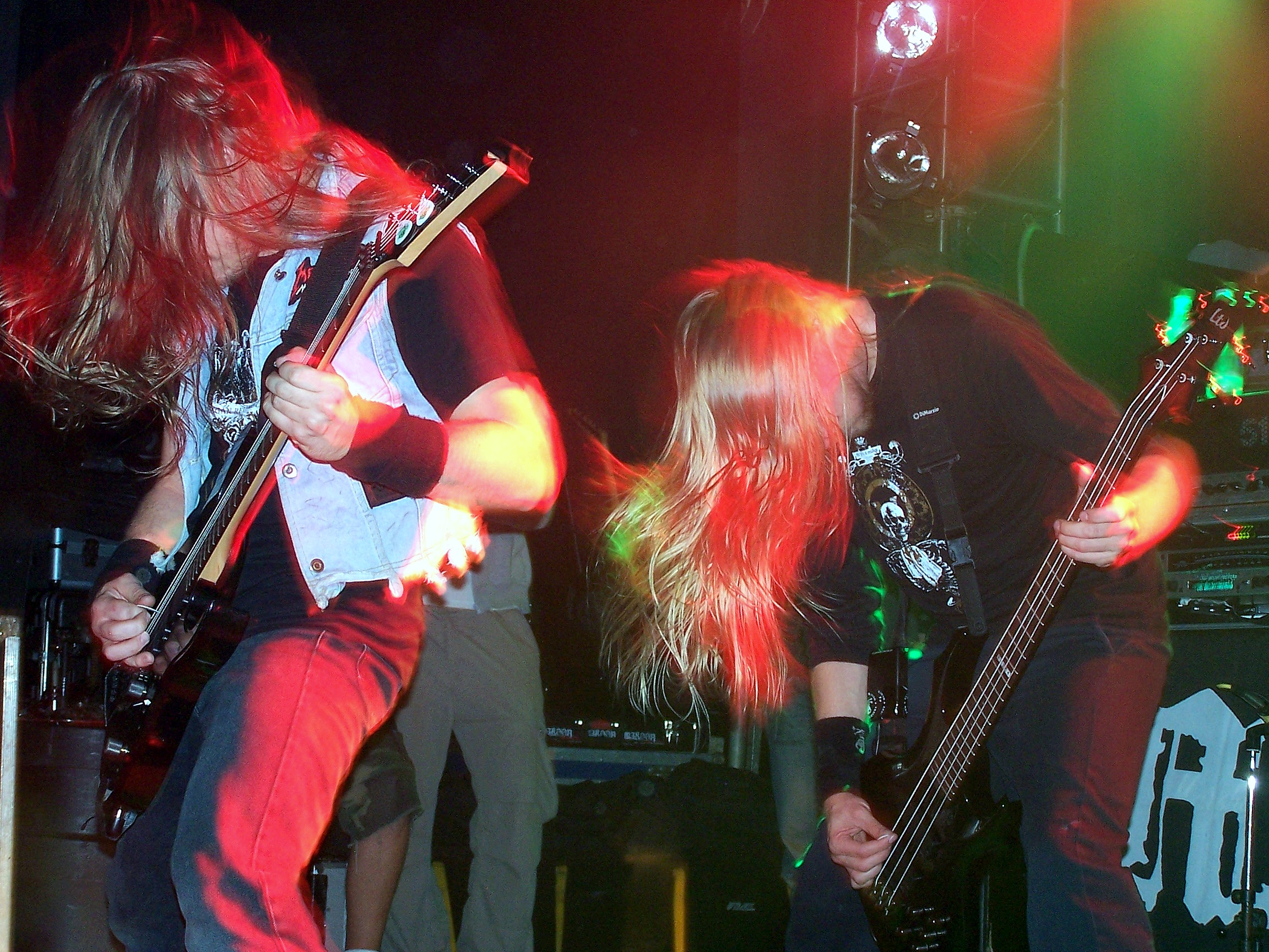 Sebastian Rieche and Tom Eric Moraweck of Maroon at Hell On Earth 2006 in München. 2006, September 28